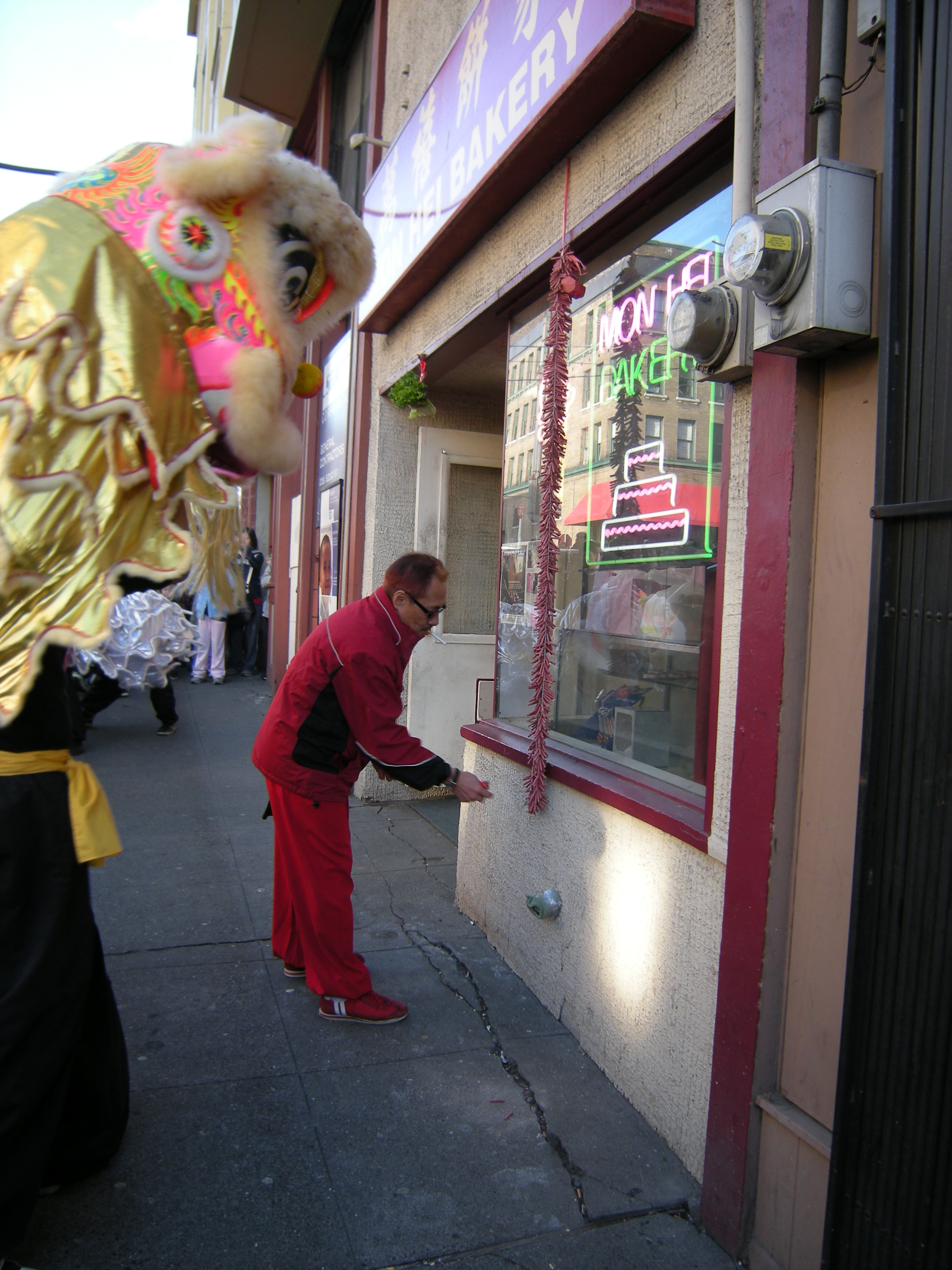 Lion dancers outside Mon Hei Bakery on King Street, Chinese New Year, International District, Seattle, Washington. Man lighting firecrackers at right.